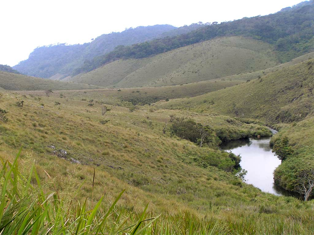 Hortain Plains, Sri Lanka